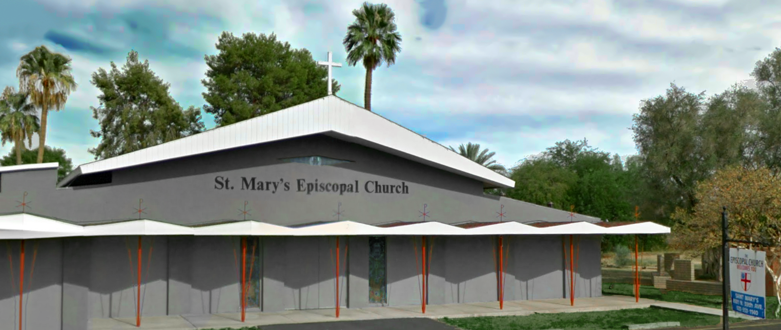 Updated photo of St Marys exterior after 2014 structural fire.